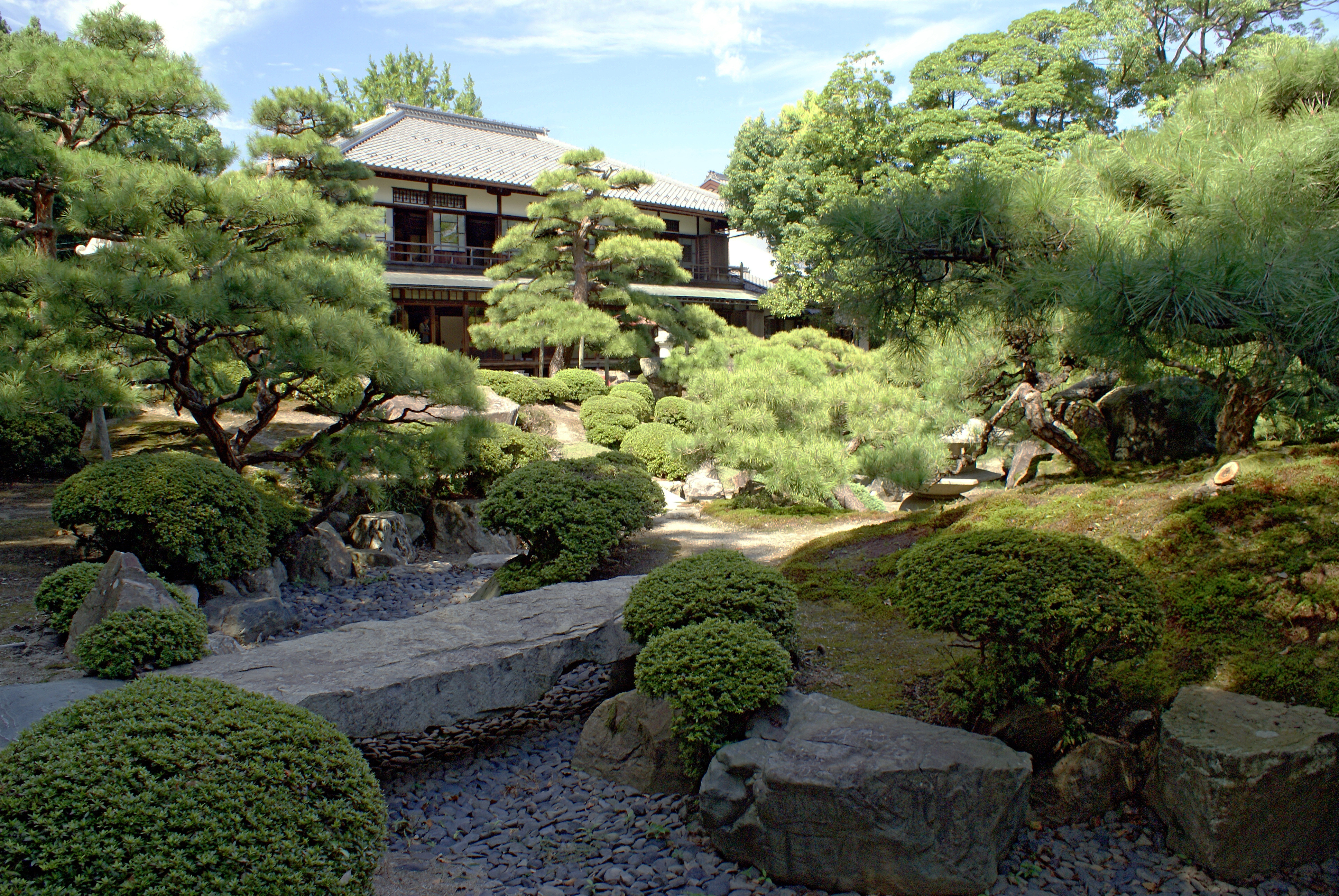 Keiunkan in Nagahama, Shiga prefecture, Japan